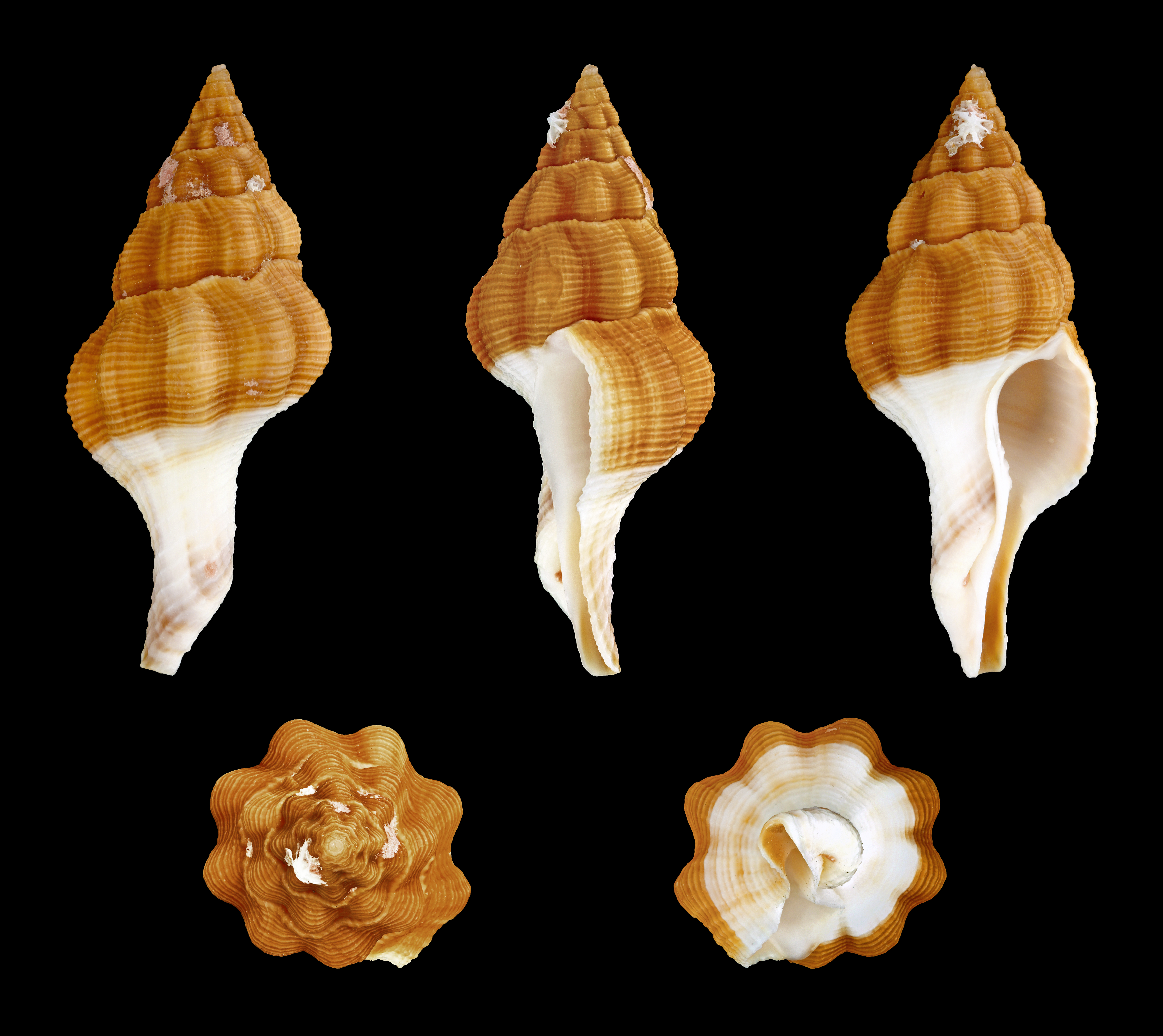 Paetel's Latirus; length 3.5 cm; Originating from Bohol, Philippines; Shell of own collection, therefore not geocoded. Dorsal, lateral (right side), ventral, back, and front view.